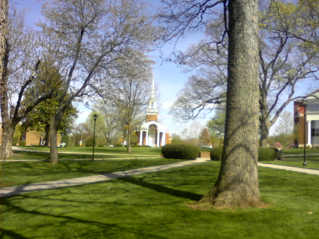 Lynchburg College Grounds